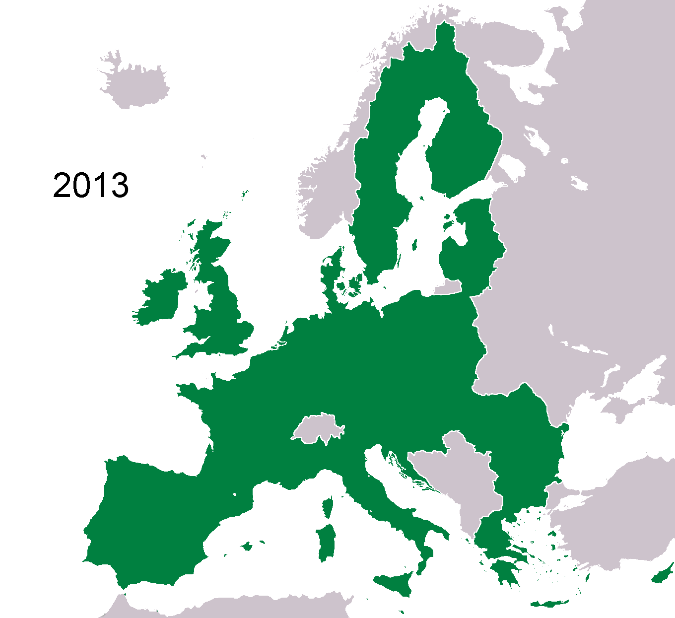 Map of the European Union including Croatia, could used in Image:Enlargement of the European Union 77.gif following enlargement.